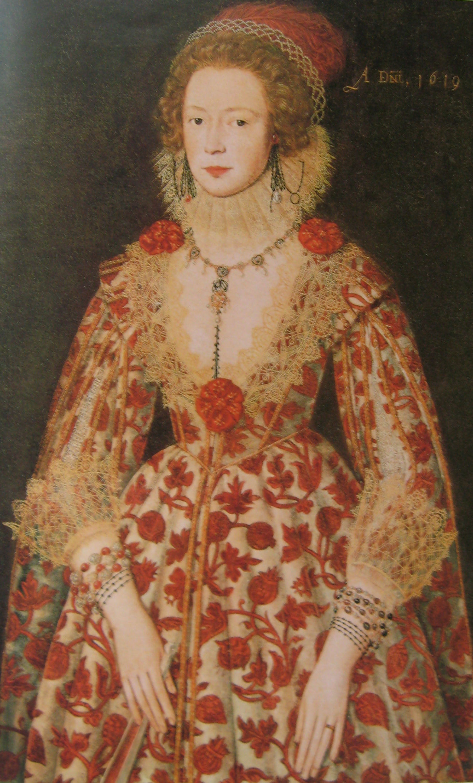 Portrait of a young lady